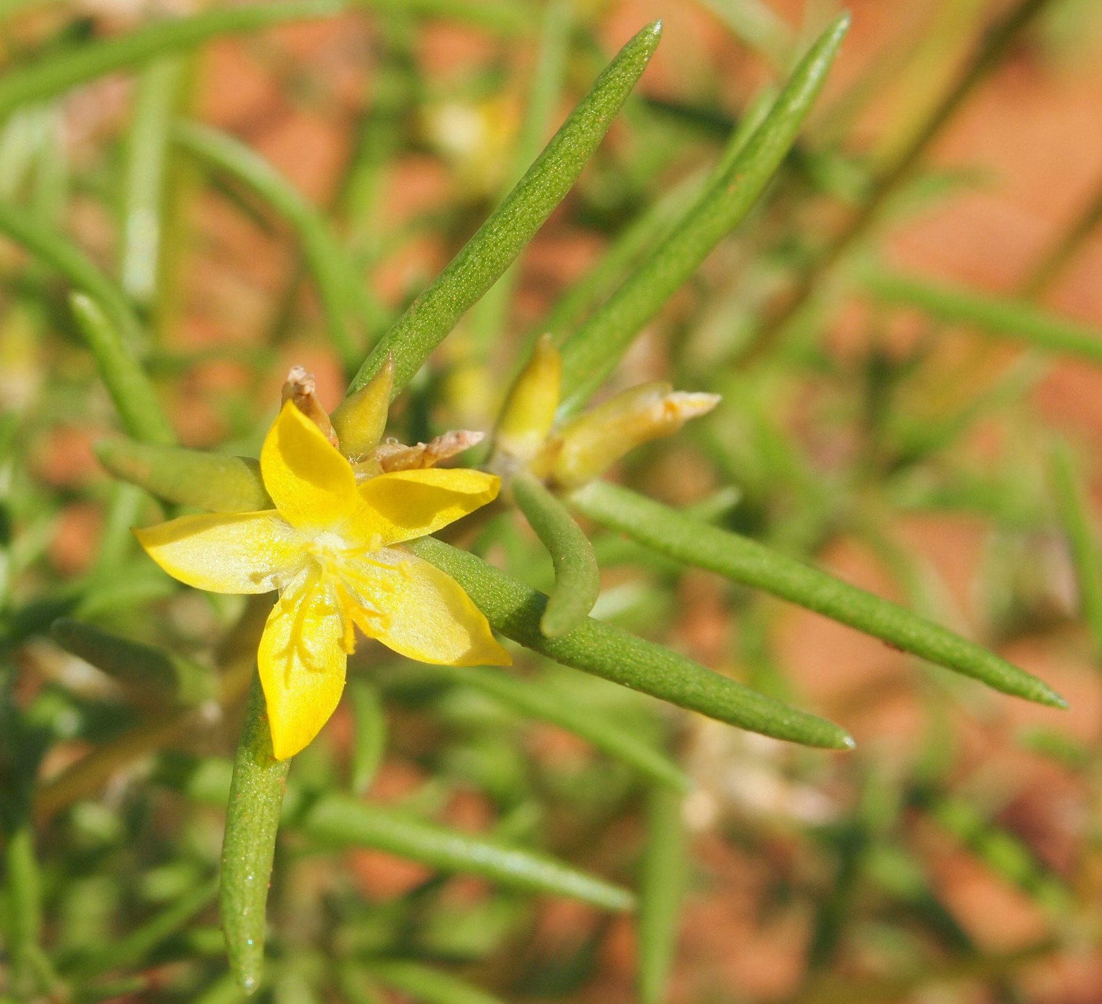 Portulaca filifolia flower